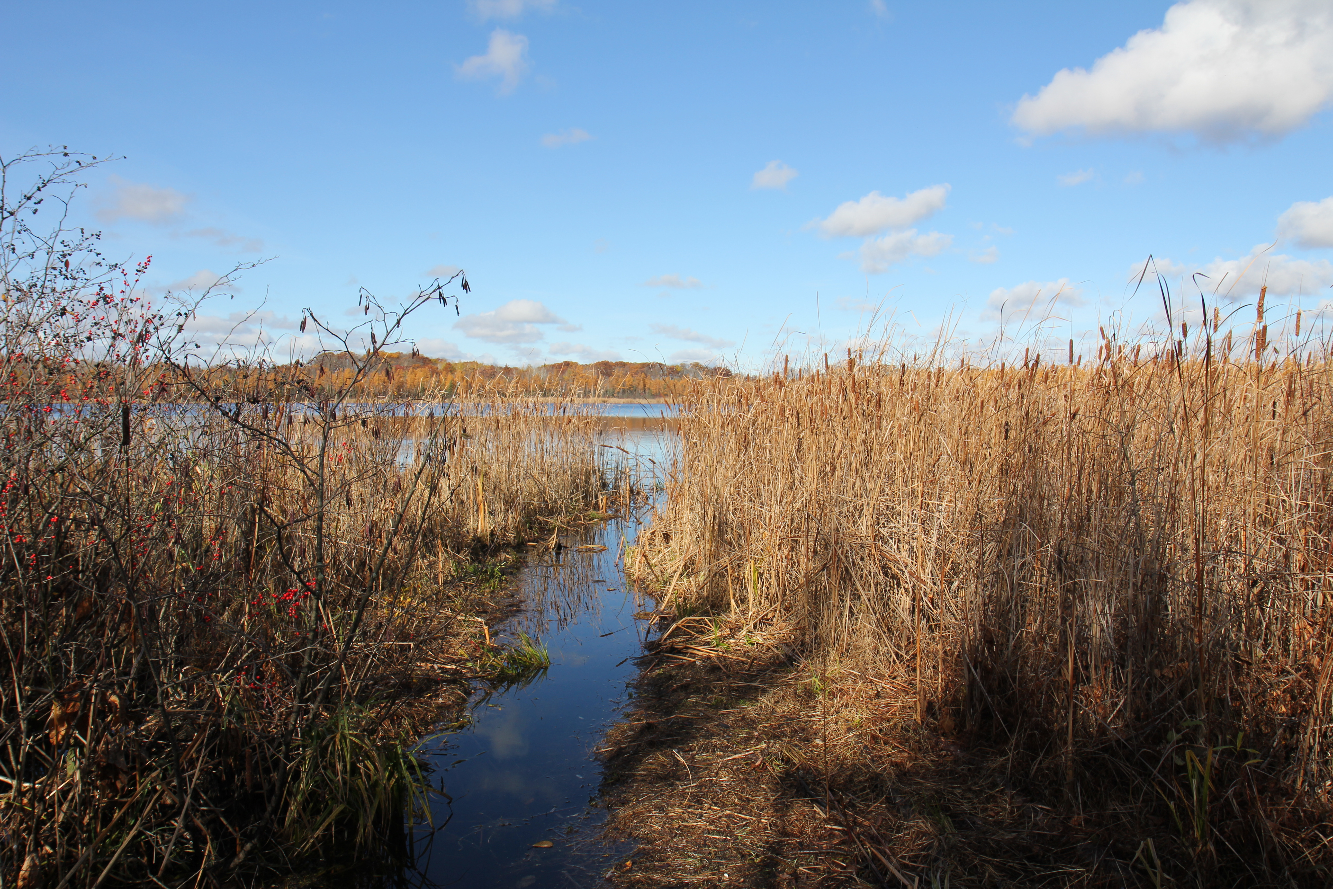 Spruce Lake Bog at a creek entrance. The bog is listed as a Natural Natural Landmark.